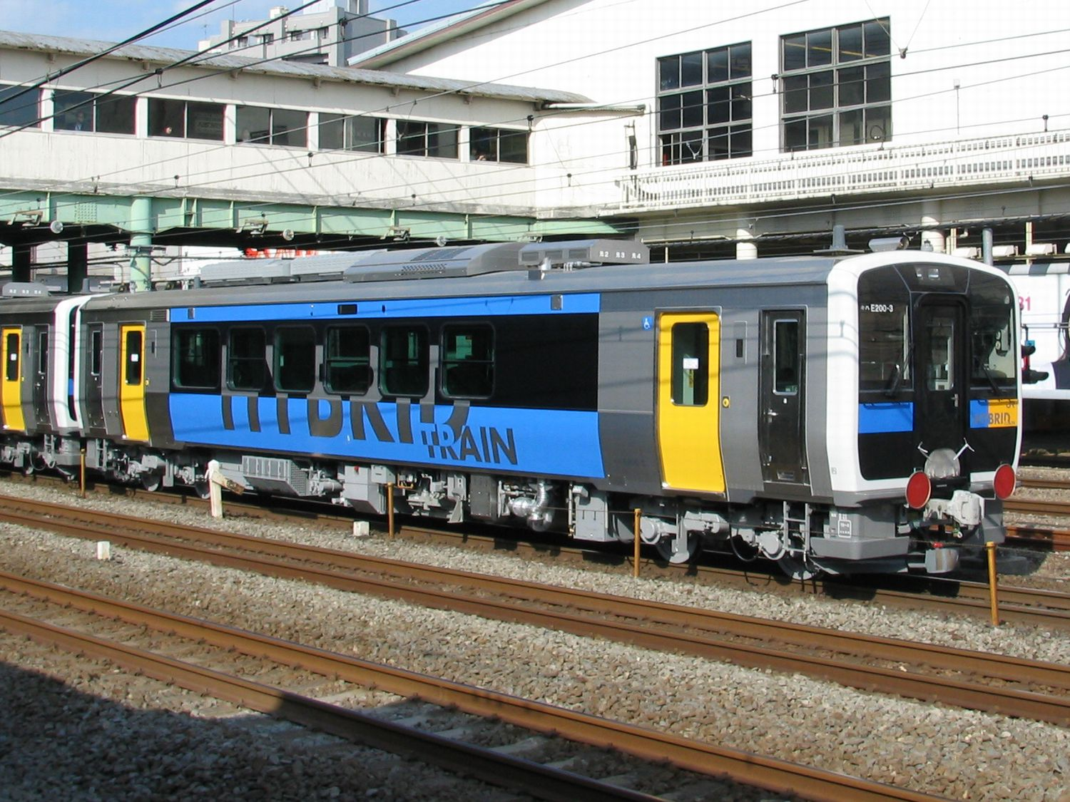 JR東日本キハE200系 鶴見駅にて（トリミング済） TYPE-E200 runs in East Japan Railway company at Tsurumi station